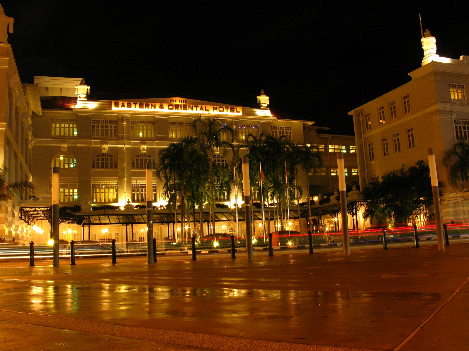 Georgetown, George Town, Penang, Malaysia